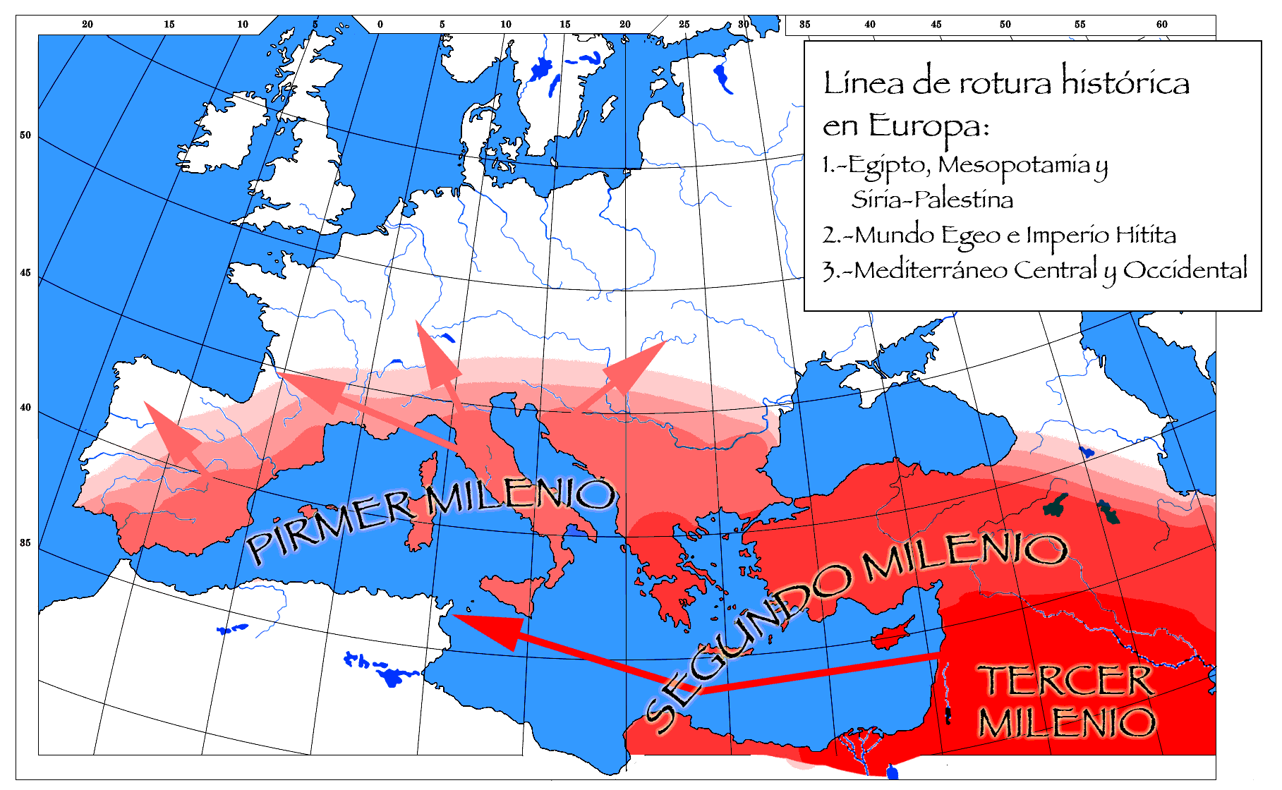 Map in Spanish language of the theoretical «historic line» in Europe between the 3rd millenium BCE and the 1st millenium BCE